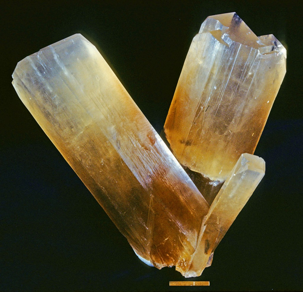 Borax Locality: U.S. Borax open pit (Boron pit), U.S. Borax Mine (Pacific West Coast Borax; Pacific Coast Borax Co.; Boron Mine; U.S. Borax and Chemical Corp.; Kramer Mine; Baker Mine), Kramer Borate deposit, Boron, Kramer District, Kern Co., California, USA Borax crystals. J. Minette collection. Scale at bottom of image is one inch with a rule at one cm.